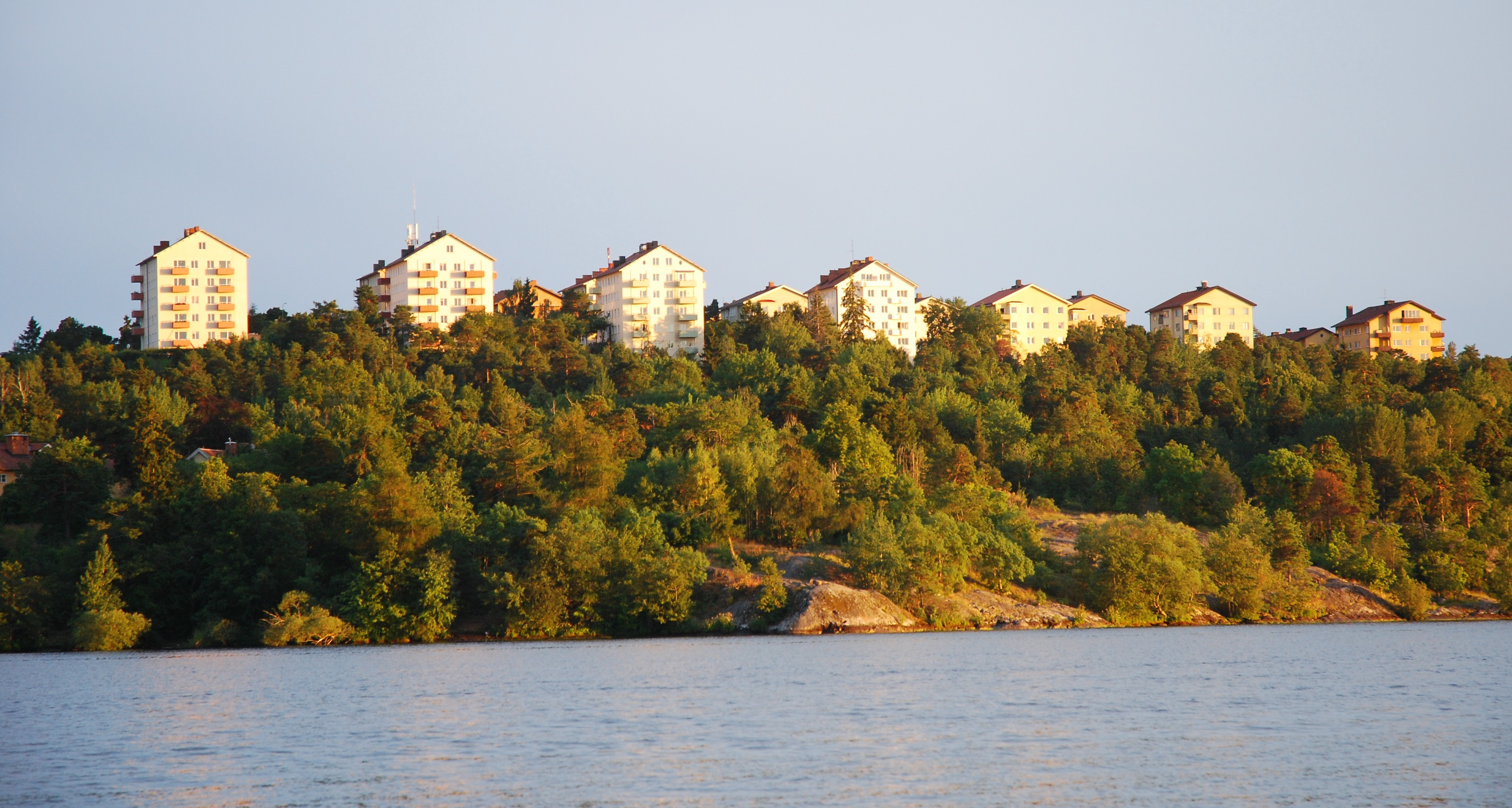 Klubbacken, at Lake Mälaren, Stockholm. Buildings from end of 1940s.